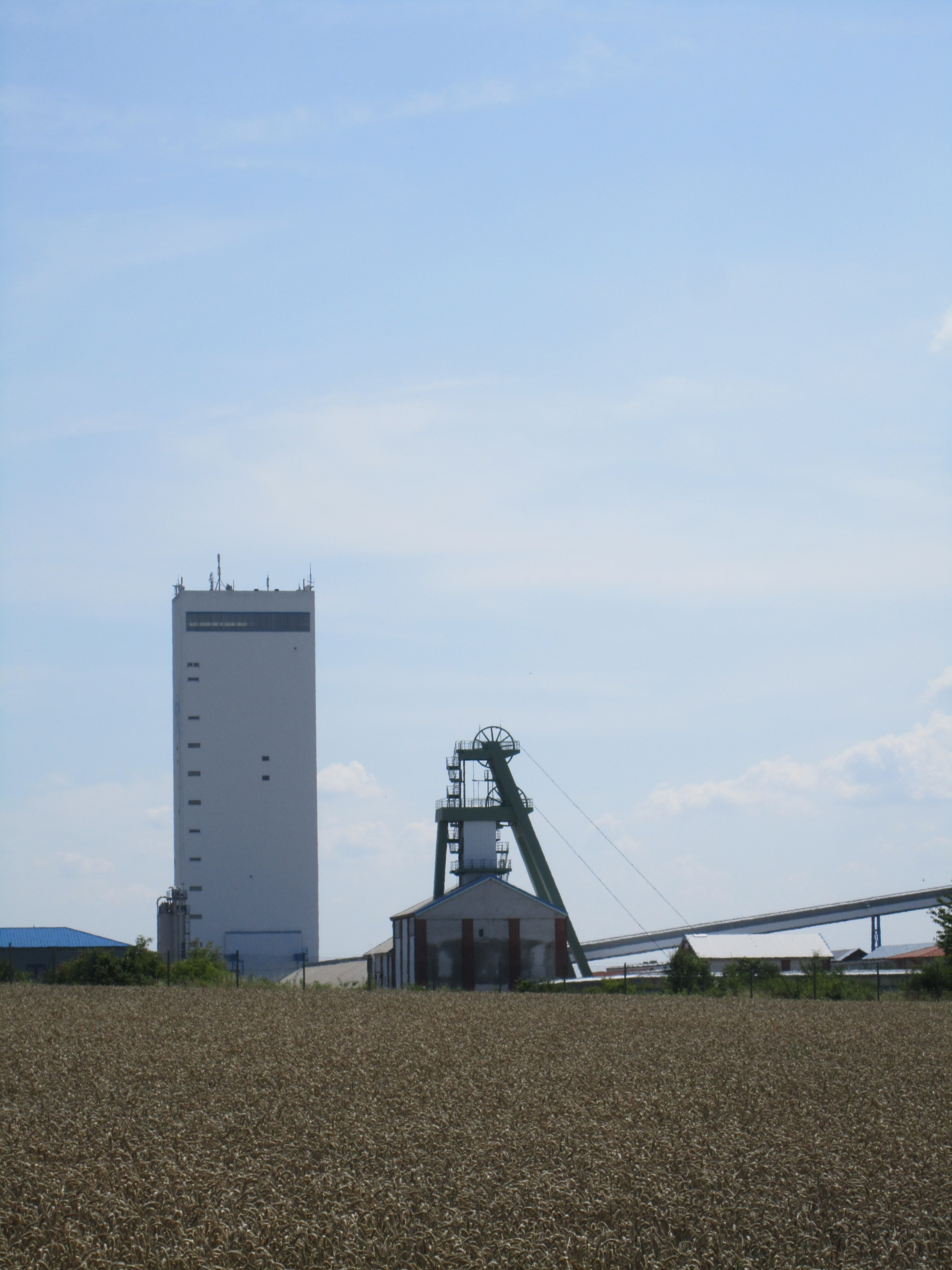 Winding towers of the Bernburg salt mine in Bernburg, Saxony-Anhalt, Germany.